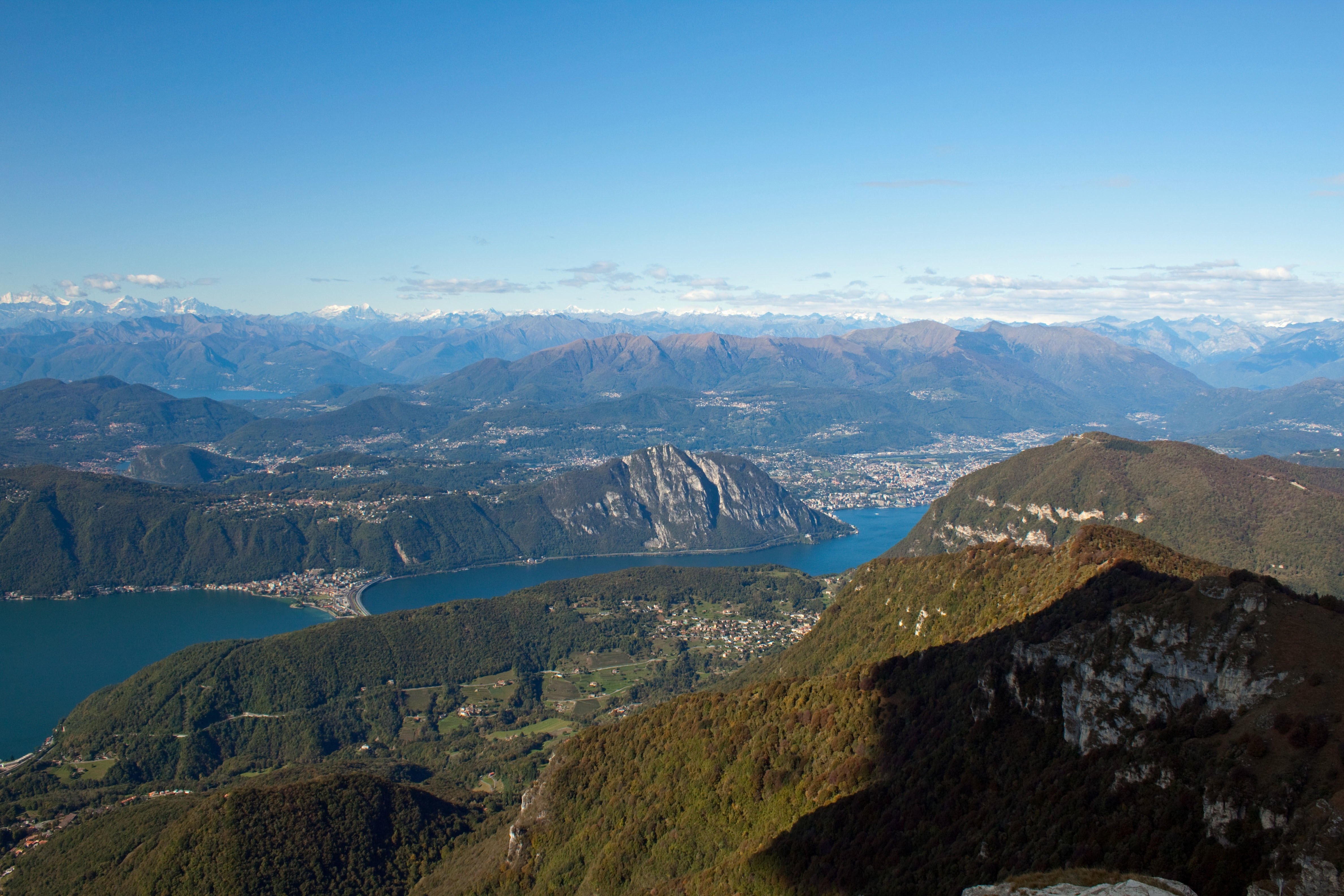 Panoramic view as seen from Monte Generoso, Ticino, Switzerland. On the foreground: the town of Melide, the emblematic Monte San Salvatore, the city of Lugano and the Lugano Lake. On the background: the alpine ridge of southern Switzerland, starting on the left with the Monte Rosa, all the way to mount Rigi (center-right).